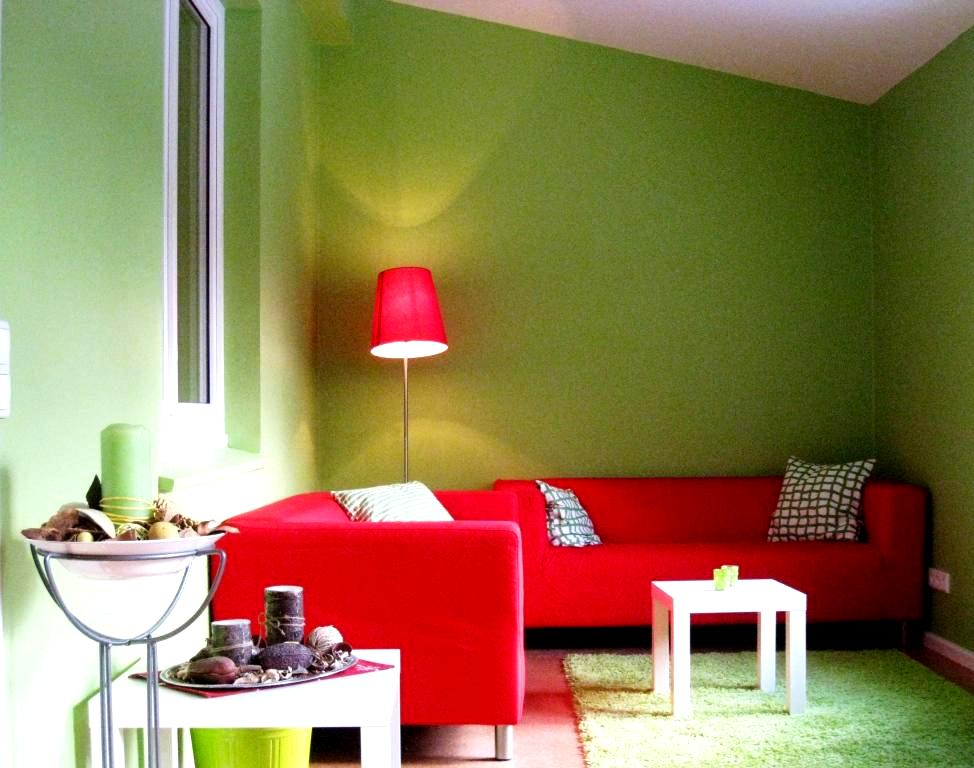 Pestalozzi-Stiftung Hamburg residential house in Altona, Hamburg (Germany)